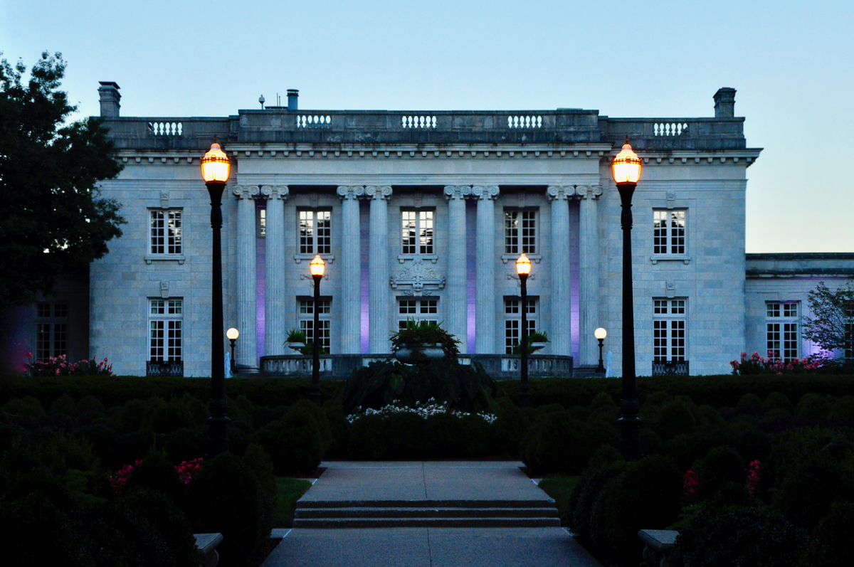 the Kentucky Governor's Mansion in Franklin, Kentucky